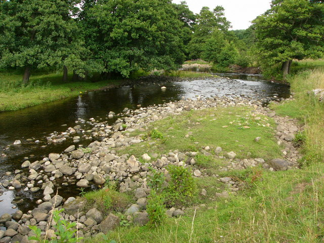 River Burn near Masham